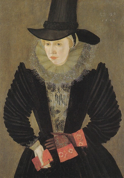 Joan Woodward, wife of the actor Edward Alleyn and step-daughter of Philip Henslowe, 1596. Dulwich Picture Gallery.